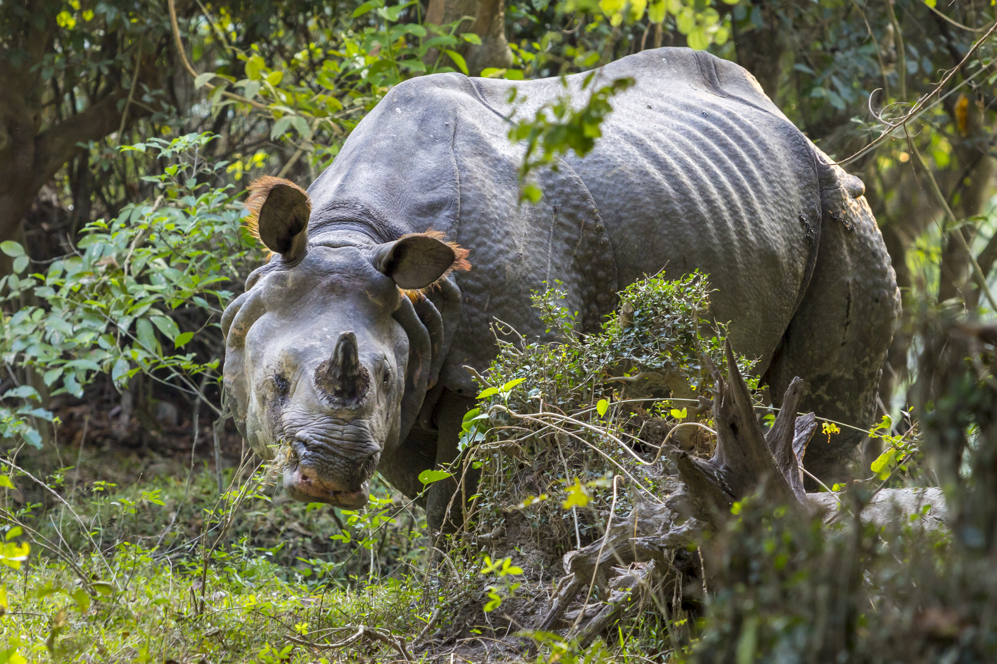 Since the brain of this 3000-kg animal is only 400-600 gms., it isn't uncommon to find broken horns as they get into fights easily. In this particular instance, this rhino has lost his eye in some recent fight.